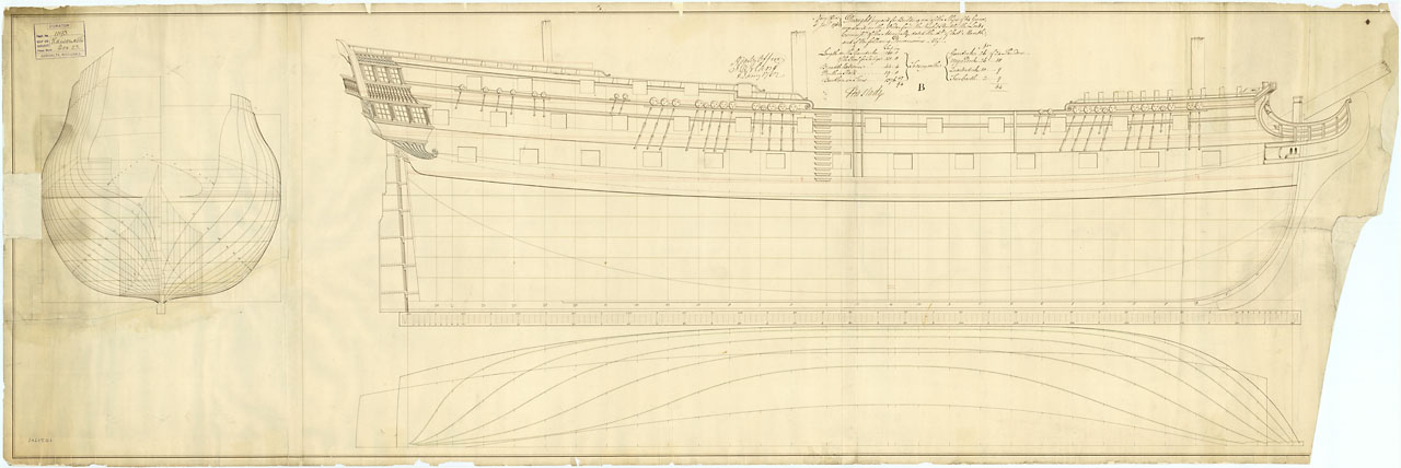 Ardent (1764); Raisonnable (1768) [alternative spelling: Raisonable] Scale: 1:48. Plan showing the body plan, sheer lines with quarter gallery decoration, and longitudinal half-breadth proposed (and approved) for building Ardent (1764) at Hull, and later for Raisonnable (1768), both 64-gun Third Rate, two-deckers. Signed by Thomas Slade [Surveyor of the Navy, 1755-1771], and John Clevland [Secretary to the Admiralty]. RAISONNABLE 1768